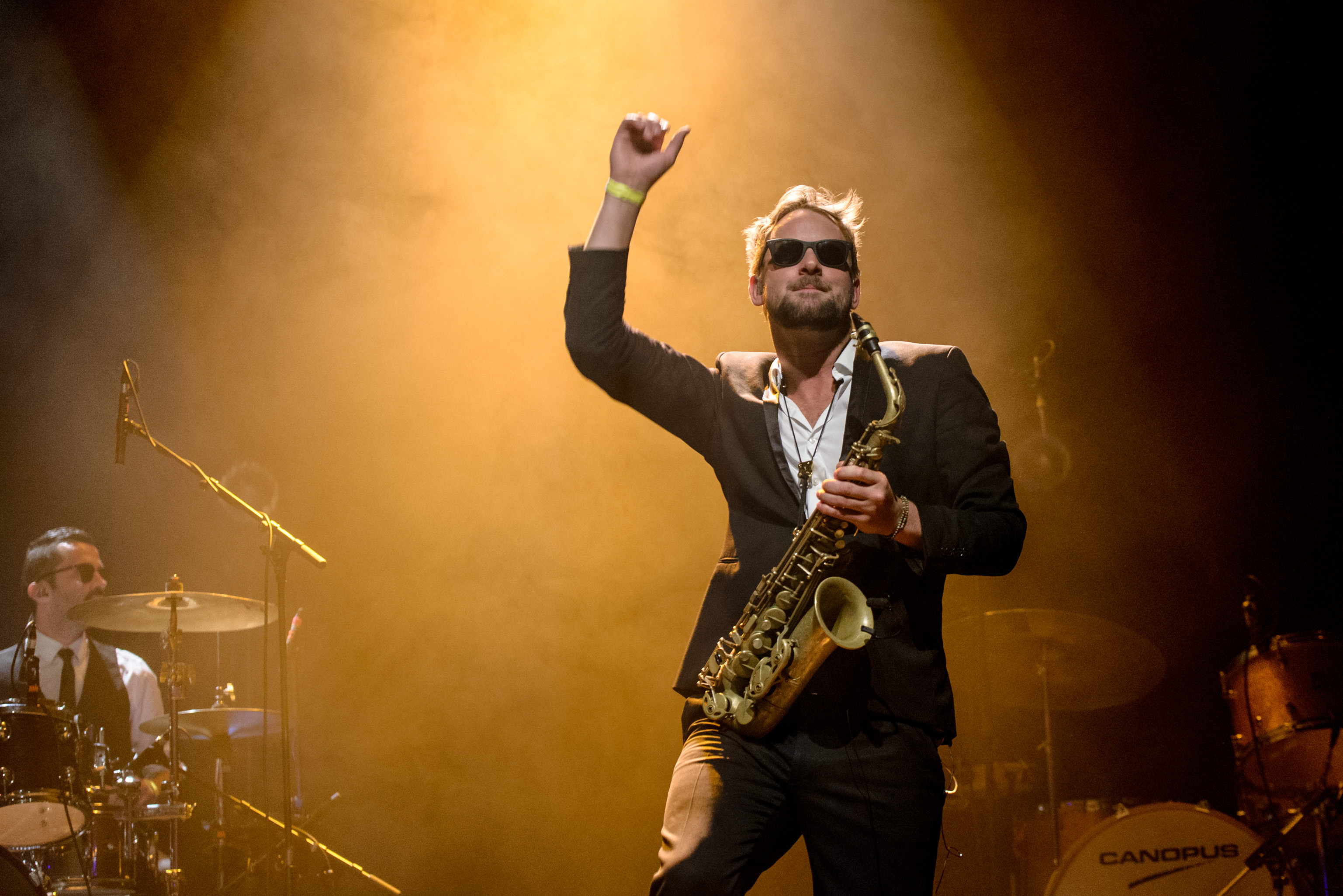 Max the Sax Live @ Munich2016